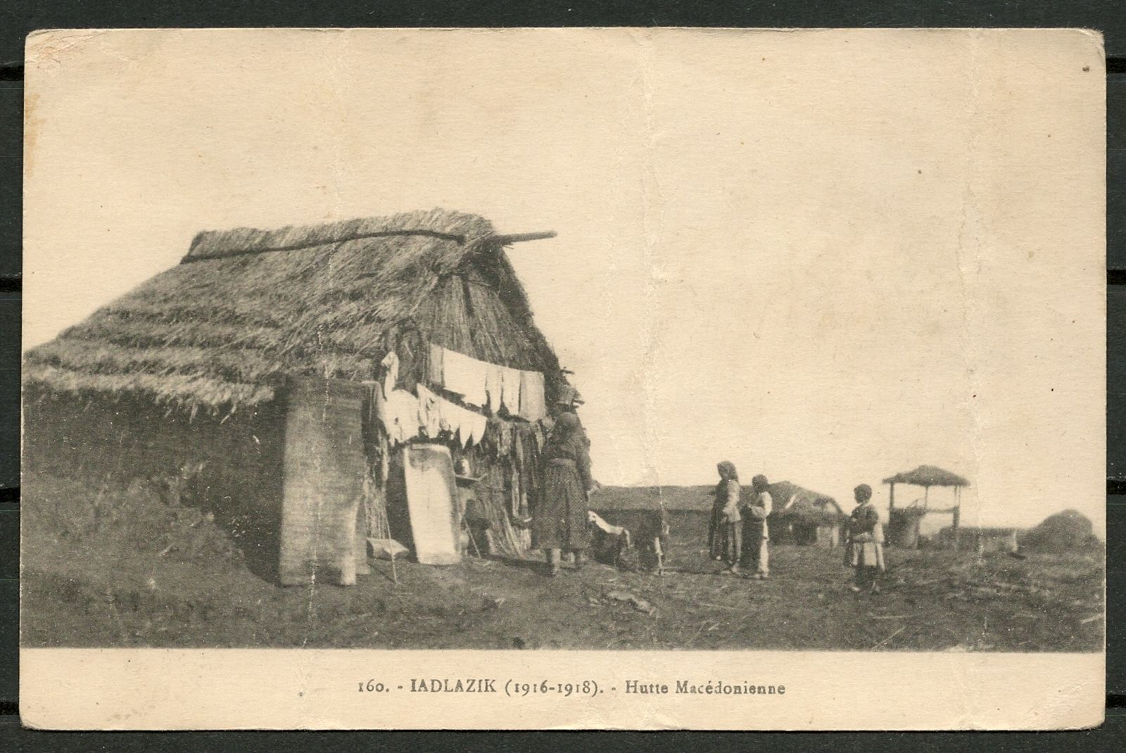 Ialadzik Hut Postcard